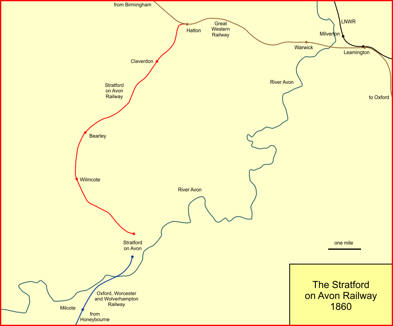 System map of the Stratford on Avon Railway, England in 1860